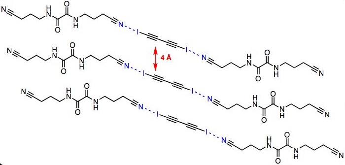 yep